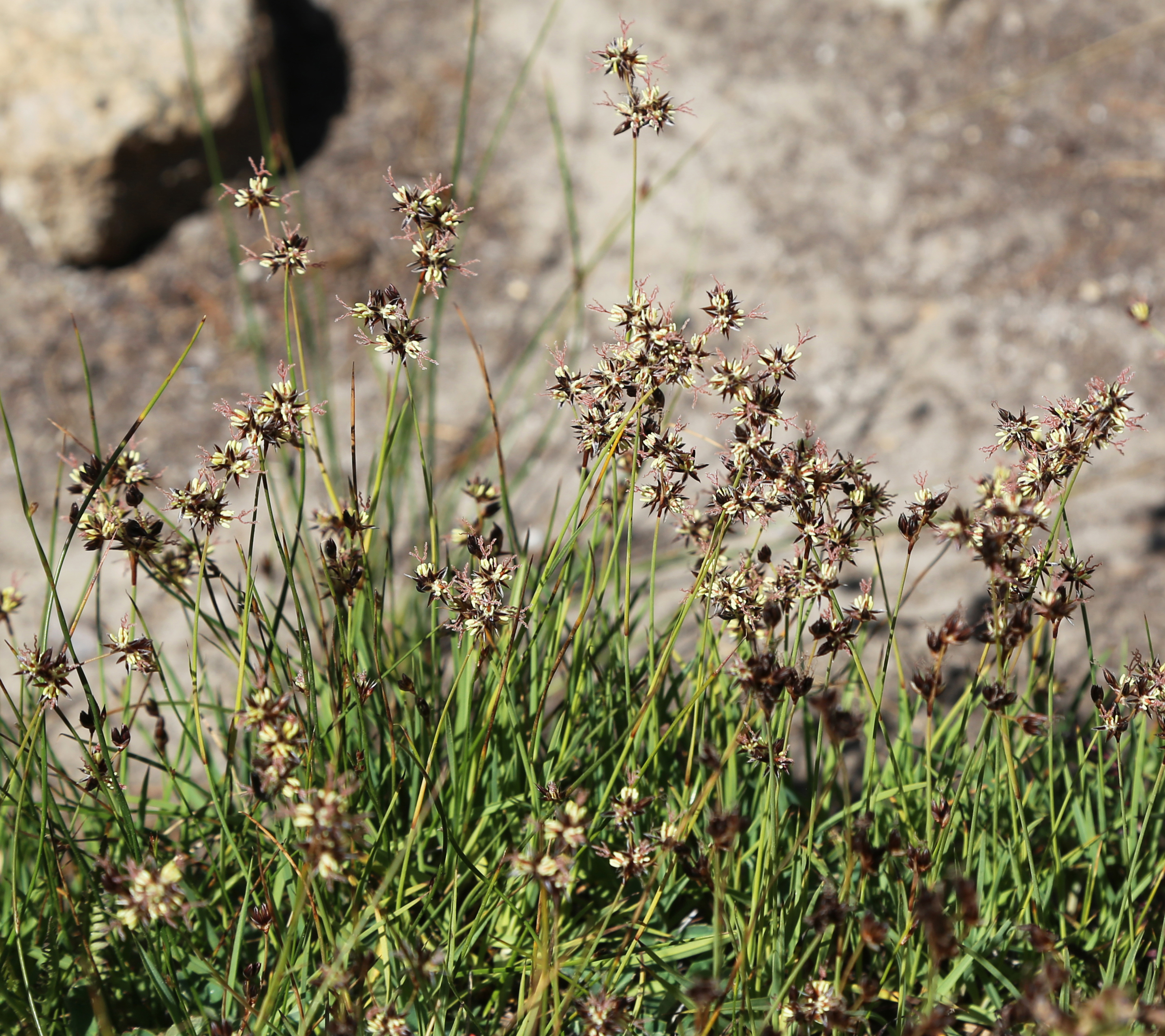 Alaska rush (Juncus mertensianus), a swath of plants in full flower, showing the 3-armed pink stigmas and 6 pale yellow stamens on each dark flower. In meadow at the junction of Mono Pass and Morgan Pass trails 10,500 ft (3,200 m), John Muir Wilderness, Sierra Nevada USA.